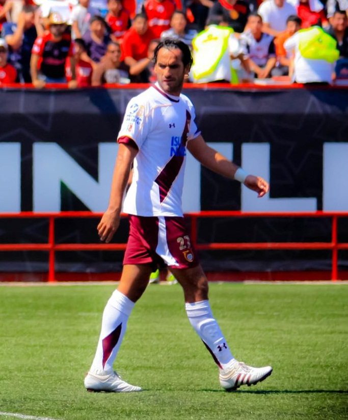 Tecos player Juan Carlos Leaño